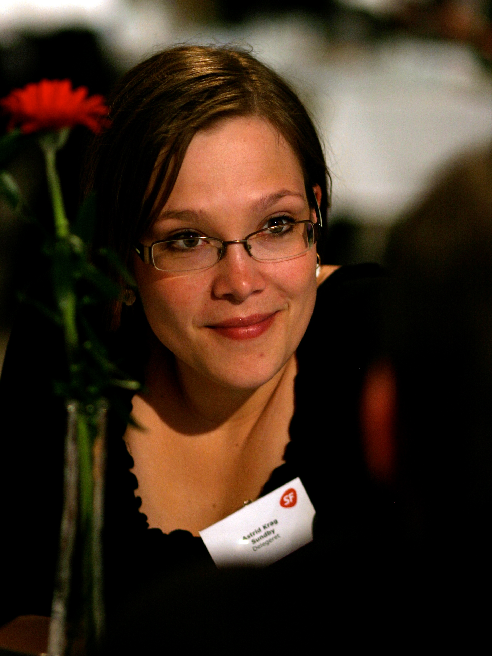 Astrid Krag, Danish politician from Socialist People's Party (SF).